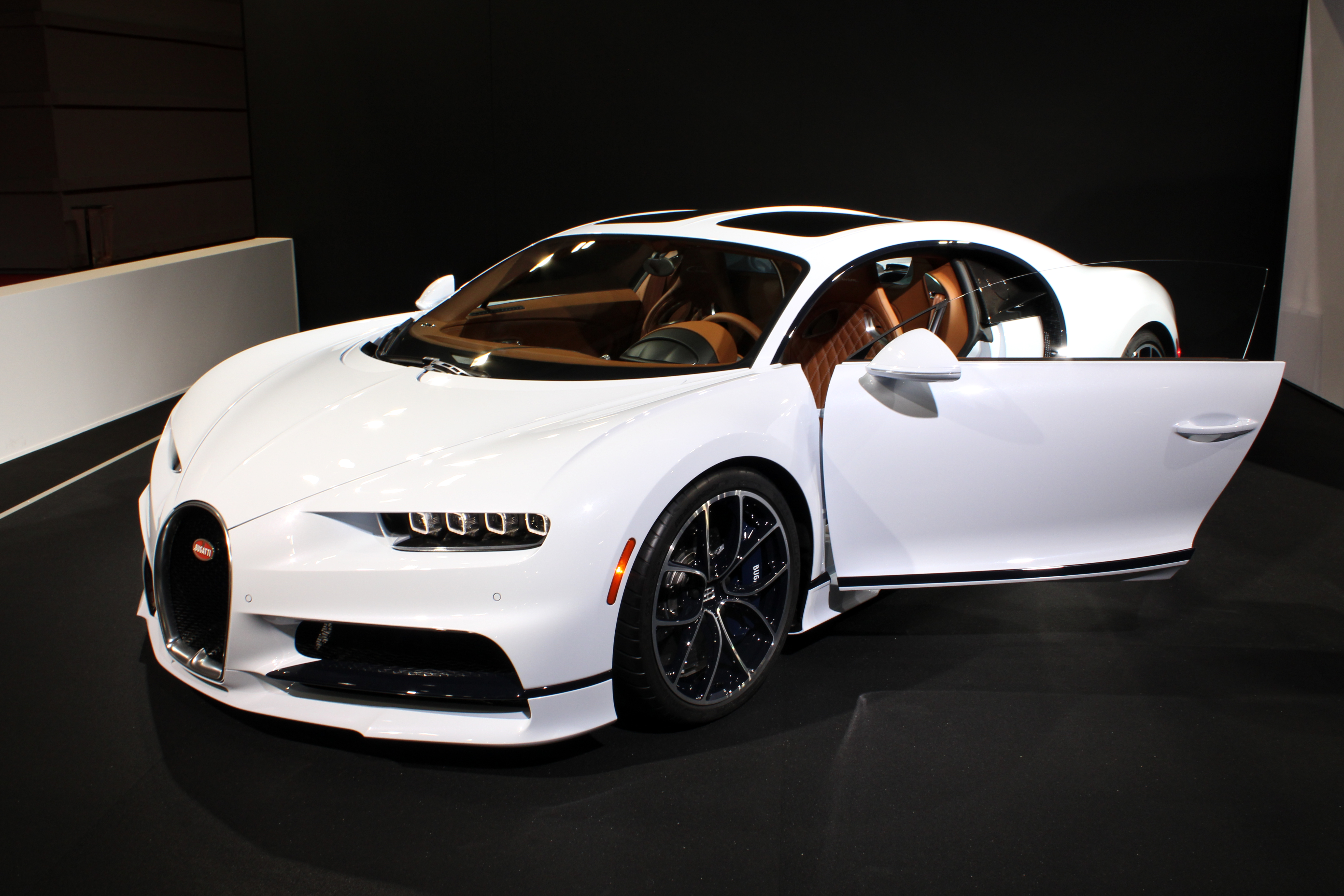 Bugatti Chiron Sky View at Paris Motor Show 2018